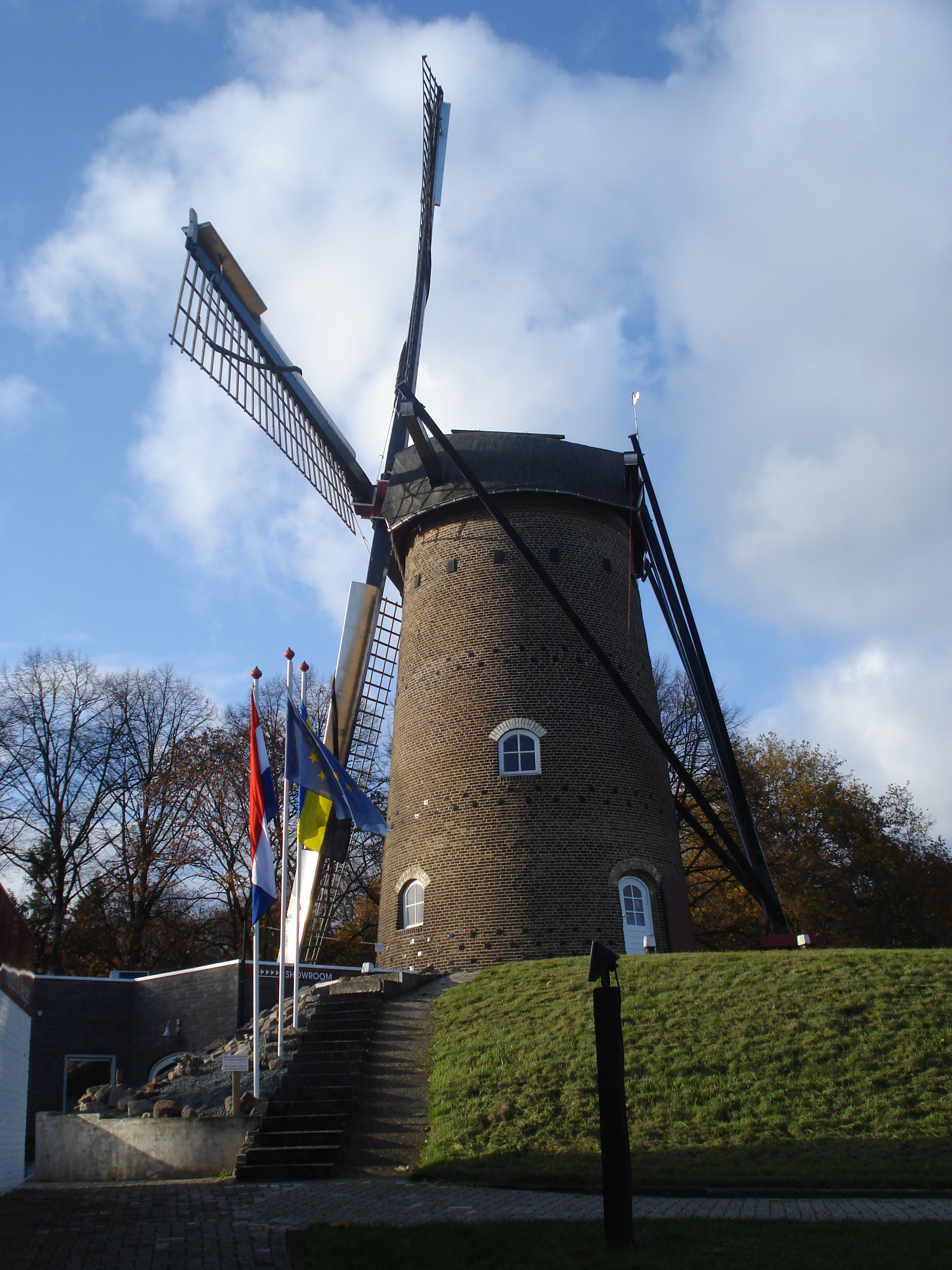 Windmill Schoonoord, Alverna, municipality of Wijchen, Gelderland, NL